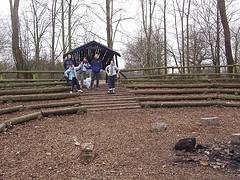 This is a campfire circle at Gilwell Park, England.